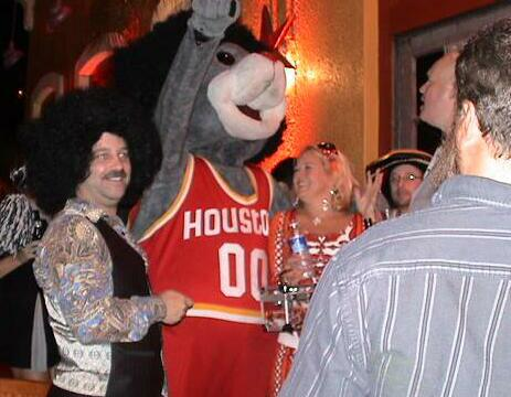 Clutch the Rockets Bear, the Houston Rockets' mascot, Halloween 2005. I, Eric V. Blanchard, personally created this digital image on October 29, 2005. --Evb-wiki 13:50, 10 April 2007 (UTC)